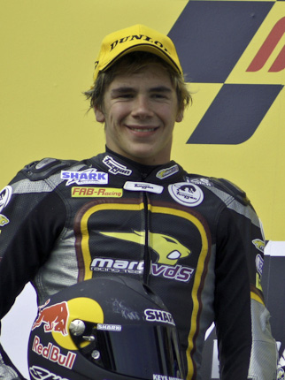 Scott Redding 2010 Phillip IslandThis is cropped version. Original size is here